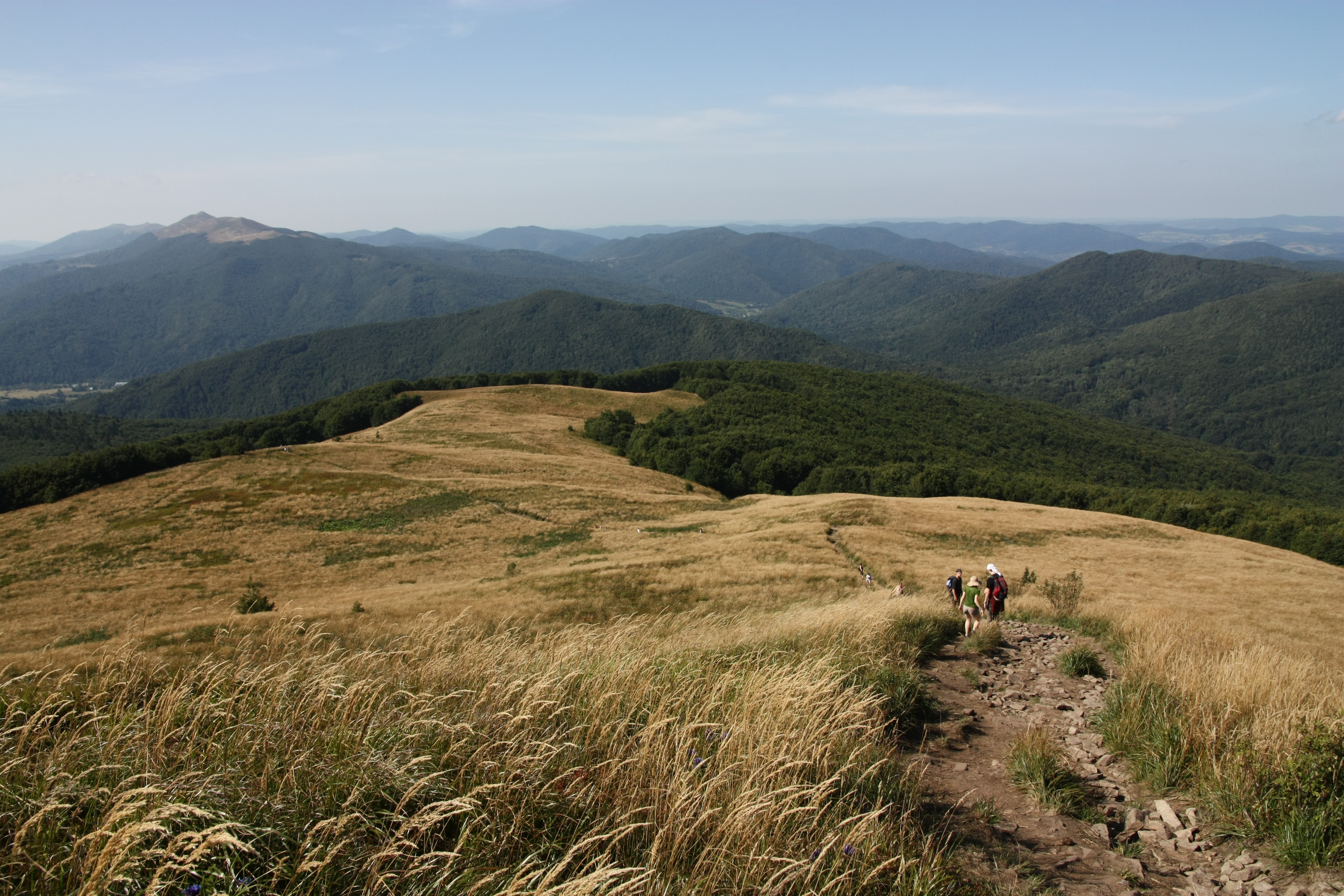 Path in Szeroki Wierch.